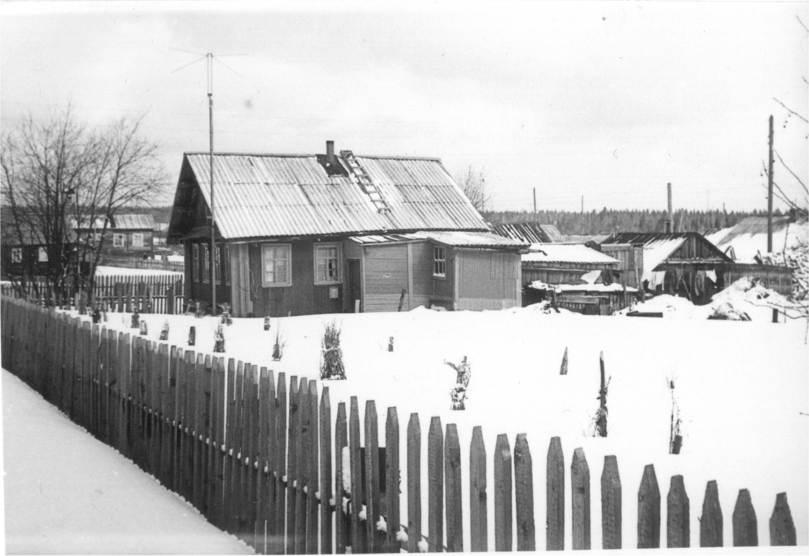 Village Zhosma